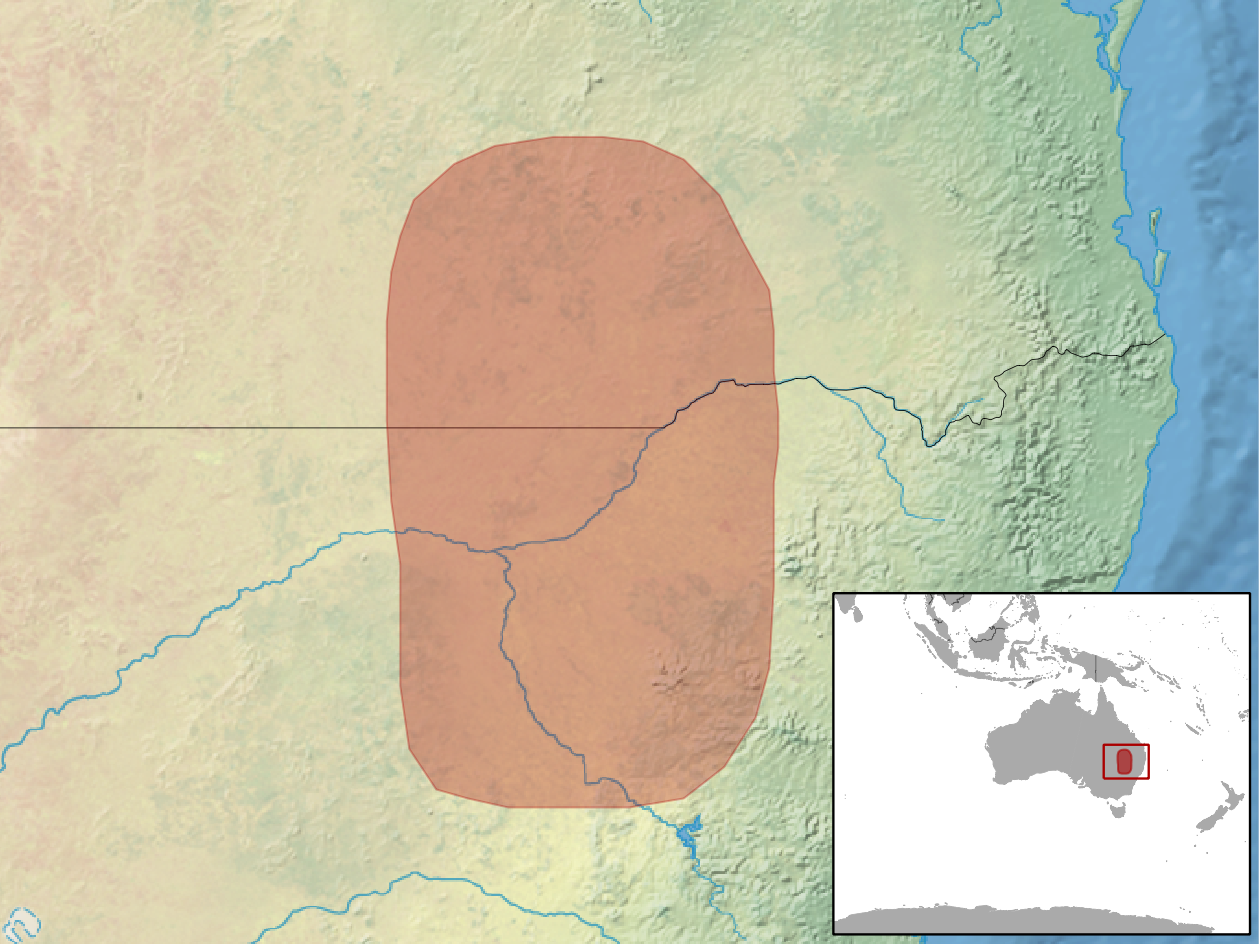 geographic distribution of Ctenotus allotropis